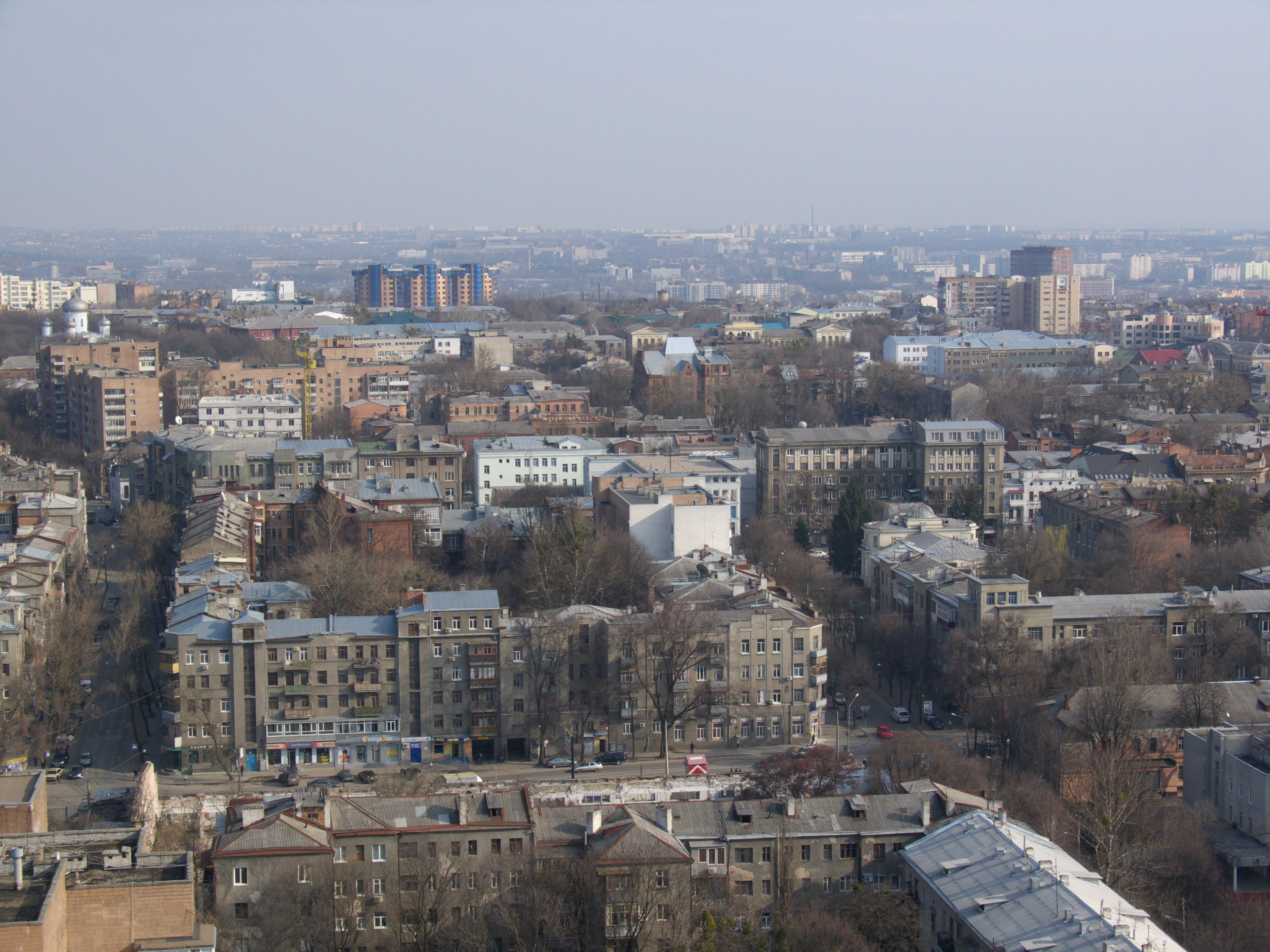 Trinklera street in Kharkov. Original photo - 7,8 mb.